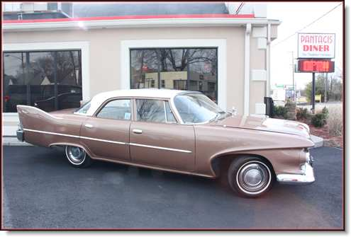 1960 Plymouth Savoy owned and photographed by Ben Deutschman.